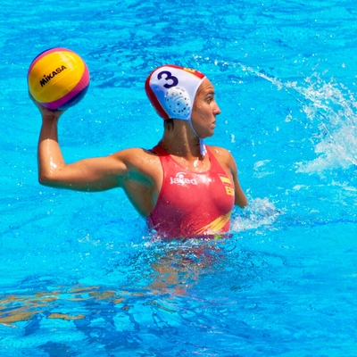 Spanish water polo player